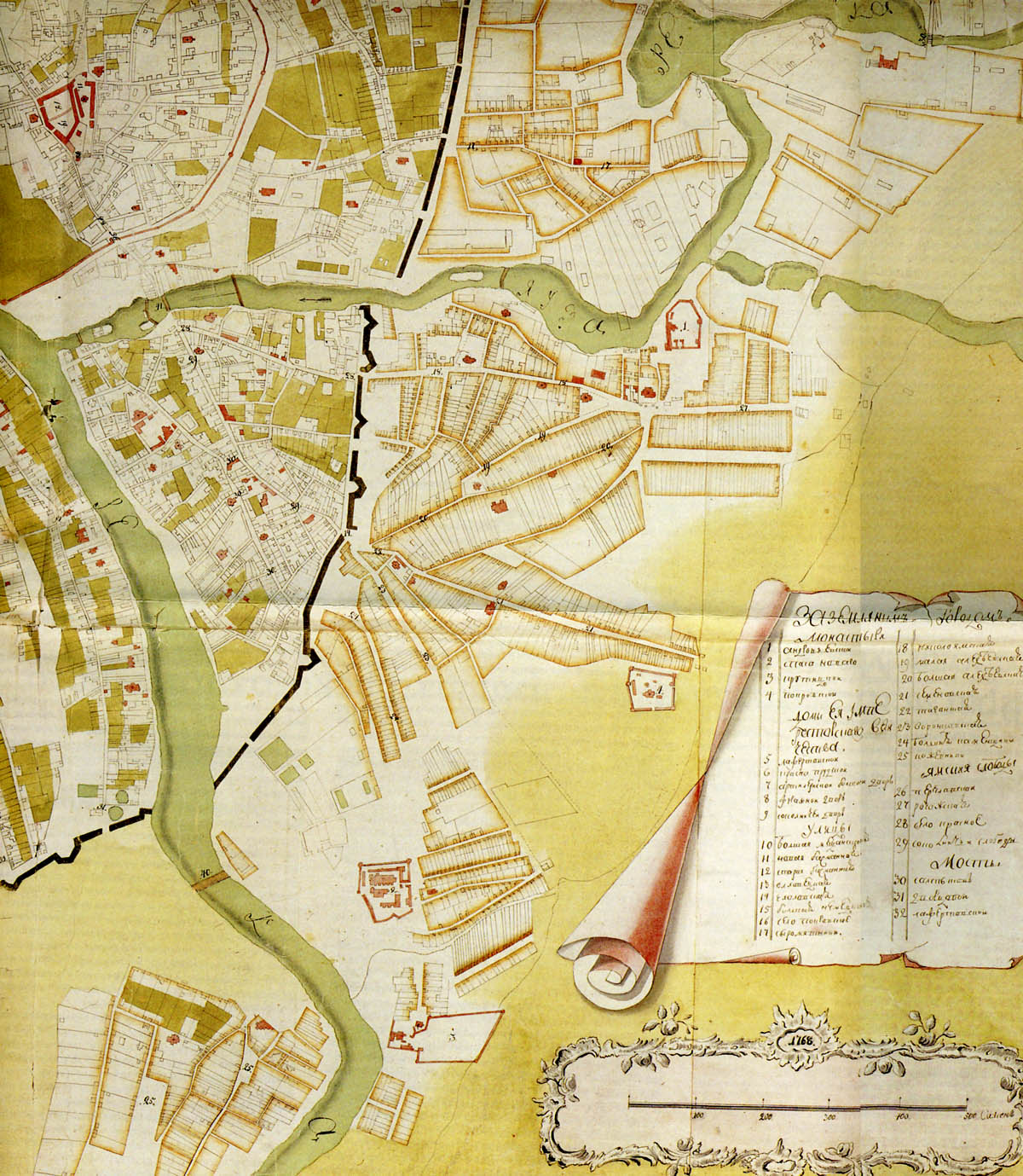 Map of eastern Moscow (Tagansky District, southern side of Basmanny District). 1760-1768.